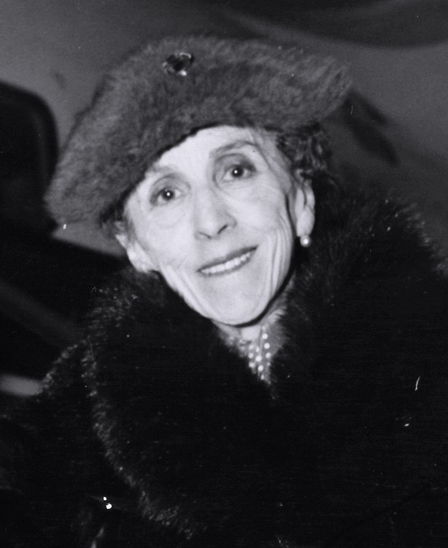 Baroness Karen Blixen-Finecke at Kastrup Airport CPH, Copenhagen 1957-11-02.